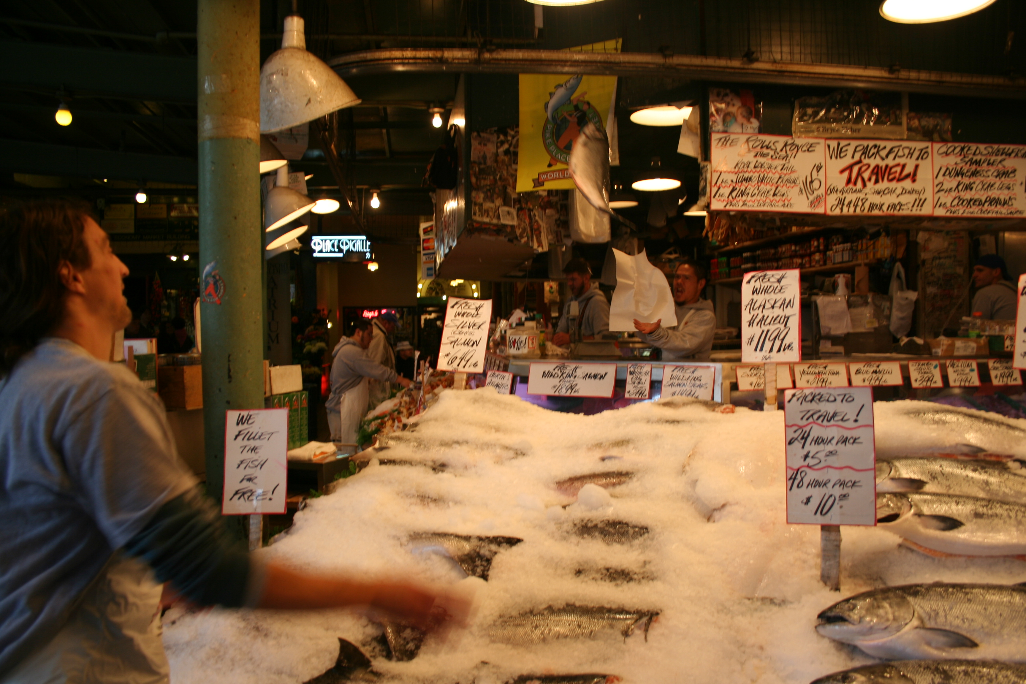 Look out! That's our salmon in the upper-middle of the screen, flying to be taken care of. They filet it, and wrap it for us.